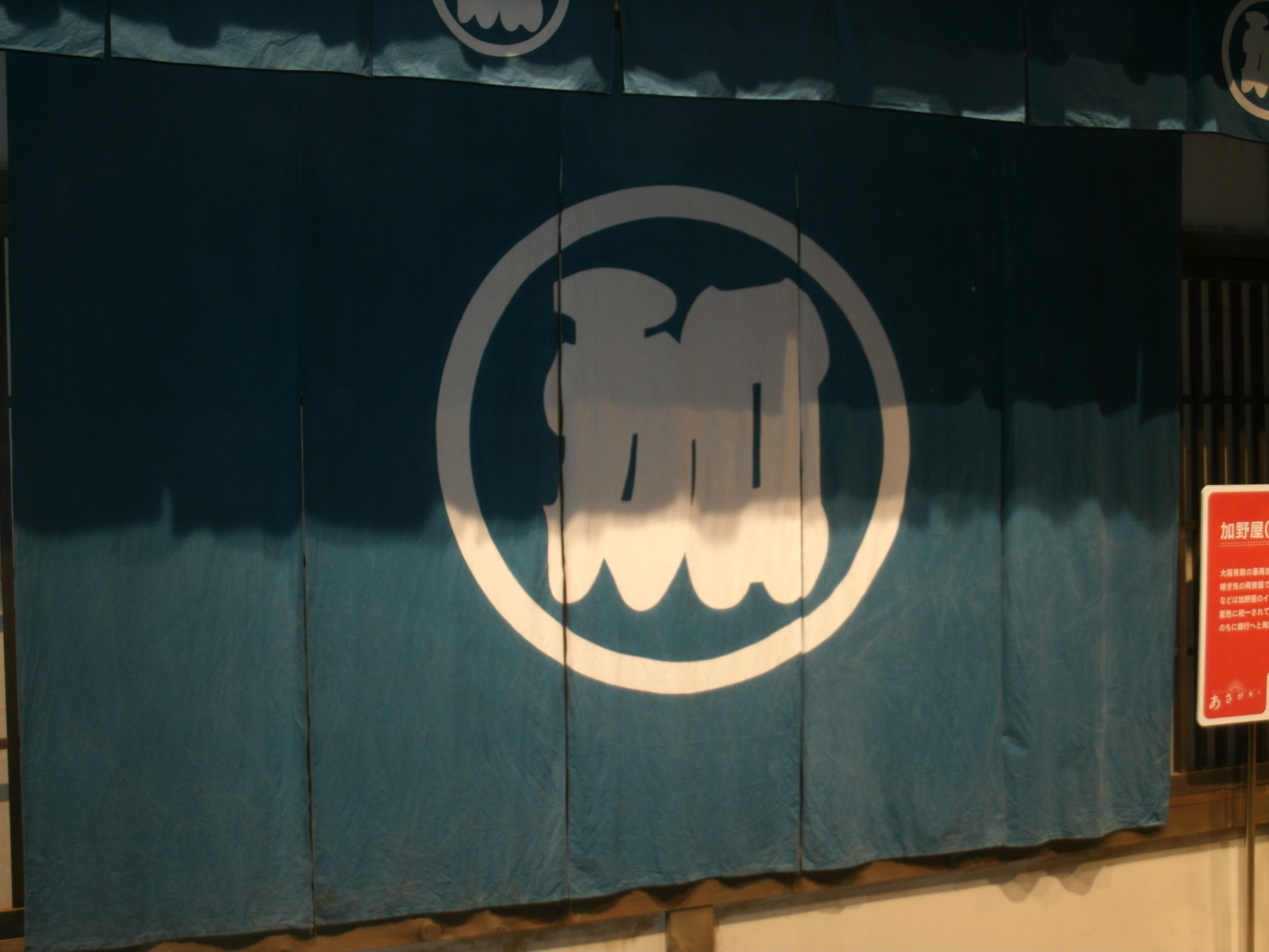 Asa ga Kita Reputation of Kanoya